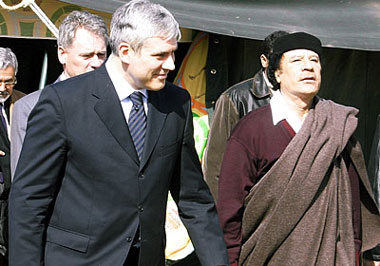 Depicted people: Boris Tadić and Muammar Gaddafi